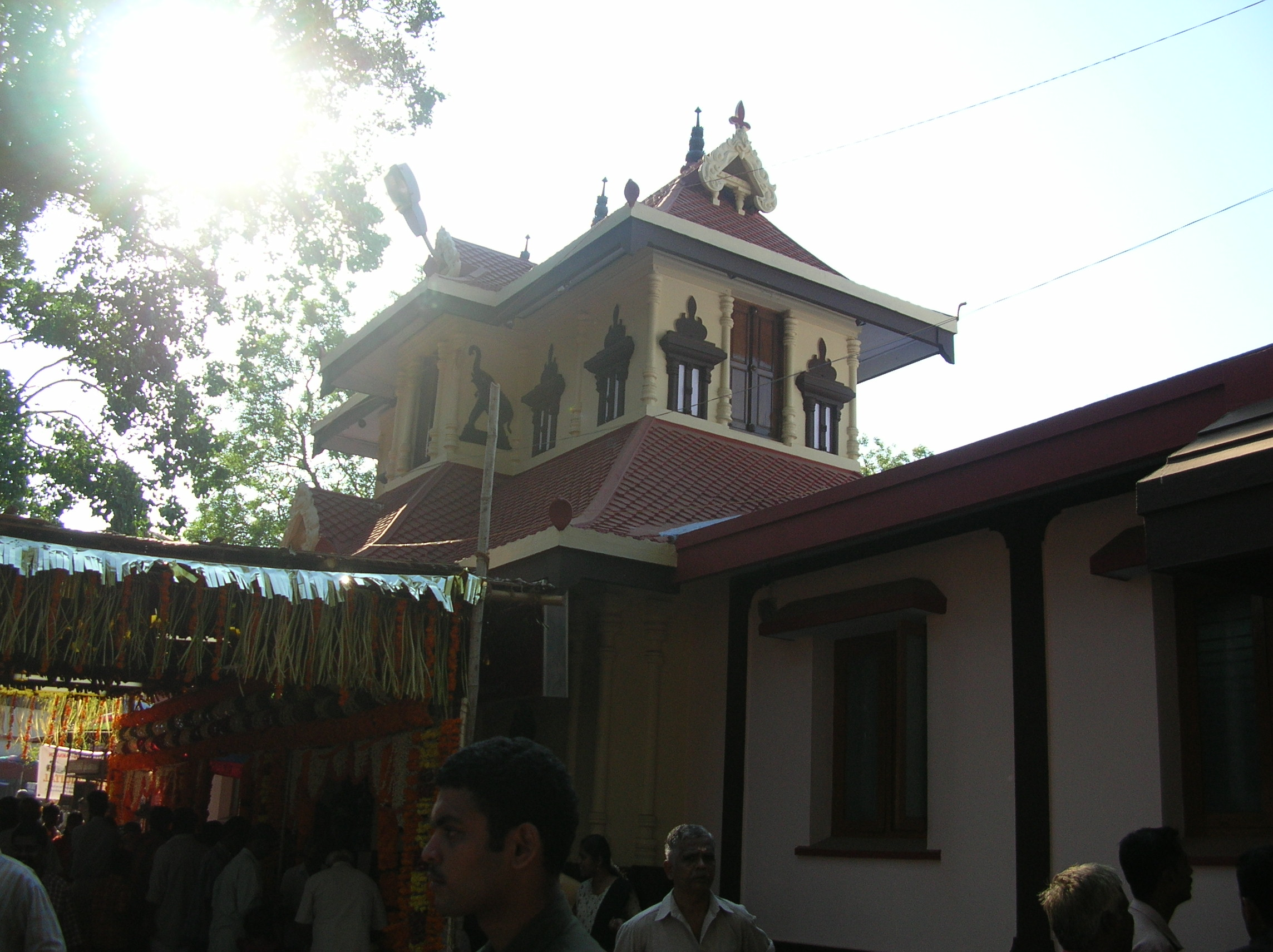 A photo of the Manapullykavu Bhagawathy temple. March 3rd 2005.